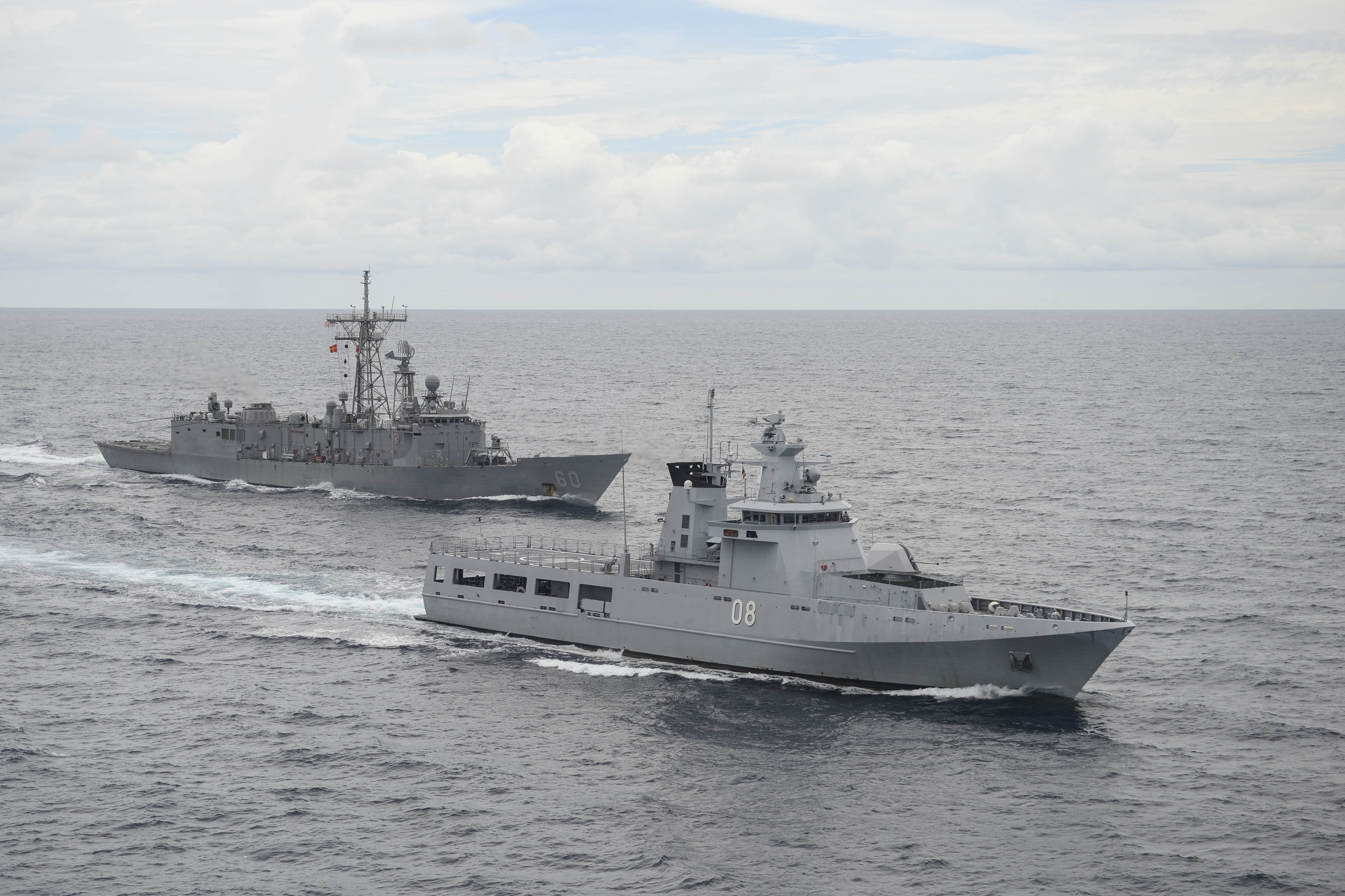 The Oliver Hazard Perry-class guided-missile frigate USS Rodney M. Davis (FFG 60), top, and the Royal Brunei Navy Darussalam-class offshore patrol vessel KDB Darulaman (PV 08) conduct maneuvering exercises while participating in Cooperation Afloat Readiness and Training (CARAT) Brunei 2014. In its 20th year, CARAT is an annual, bilateral exercise series with the U.S. Navy, U.S. Marine Corps and the armed forces of nine partner nations including Bangladesh, Brunei, Cambodia, Indonesia, Malaysia, the Republic of the Philippines, Singapore, Thailand and Timor-Leste. (U.S. Navy photo by Mass Communication Specialist 3rd Class Derek A. Harkins/Released) Unit: Navy Media Content Services DVIDS Tags: heritage; deployed; fast; united states; tradition; america; freedom; commerce; navy; Sailors; military; U.S. Navy; liberty; war fighters; CHINFO; protect; worldwide; sea lanes; on watch; war fighting; flexible; preserve peace; deter aggression; defend freedom; operate forward; be ready; war fighting first; NMCS; navy media content service